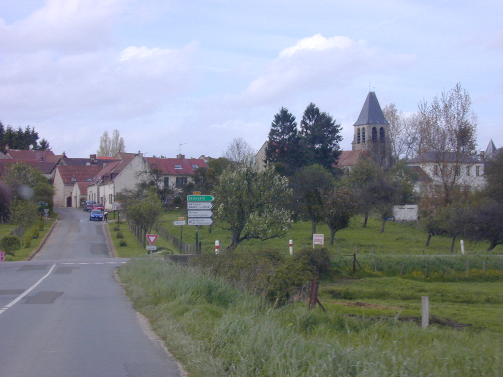 Photo of Aincourt